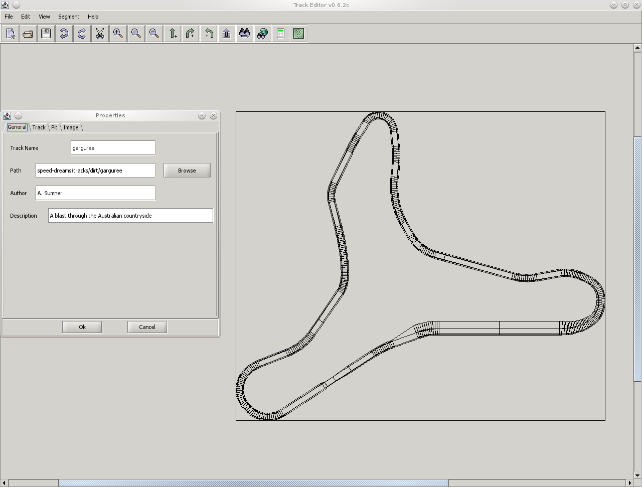 Screenshot of the main window of the Track Editor v0.62c by Charalampos Alexandropoulos, running under Kubuntu 11.10. The side panel shows the "General" tab of the "Properties" window. The track's outline displayed is that of Garguree (formerly dirt-3) by Andrew Sumner. This screenshot either does not contain copyright-eligible parts or visuals of copyrighted software, or the author has released it under a free license (which should be indicated beneath this notice), and as such follows the licensing guidelines for screenshots of Wikimedia Commons. You may use it freely according to its particular license. Free software license: This work is free software; you can redistribute it and/or modify it under the terms of the GNU General Public License as published by the Free Software Foundation; either version 2 of the License, or any later version. This work is distributed in the hope that it will be useful, but without any warranty; without even the implied warranty of merchantability or fitness for a particular purpose. See version 2 and version 3 of the GNU General Public License for more details. Copyleft: This work of art is free; you can redistribute it and/or modify it according to terms of the Free Art License. You will find a specimen of this license on the Copyleft Attitude site as well as on other sites. Note: if the screenshot shows any work that is not a direct result of the program code itself, such as a text or graphics that are not part of the program, the license for that work must be indicated separately.